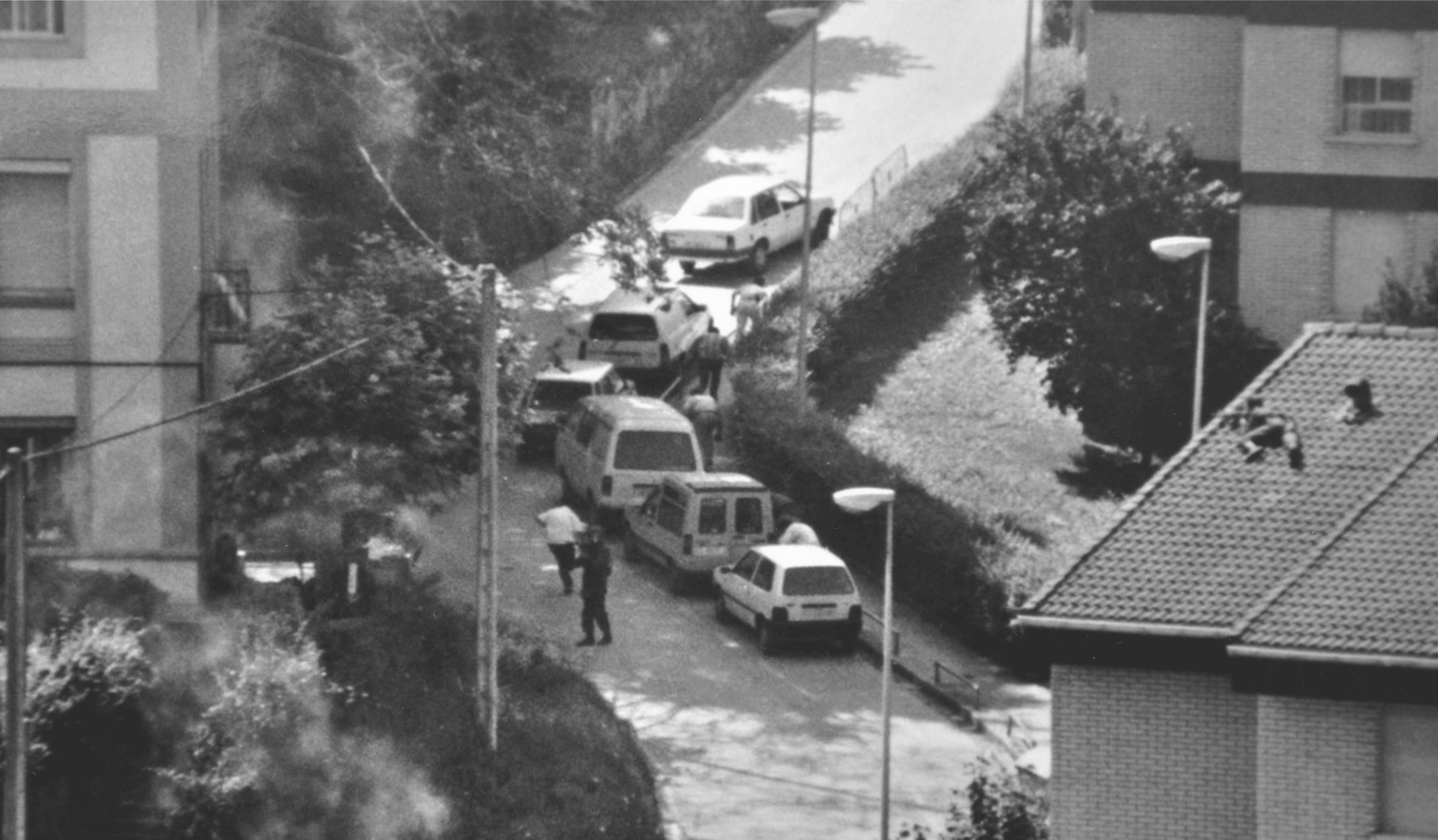 Police operation against ETA in Donostia, 1991.